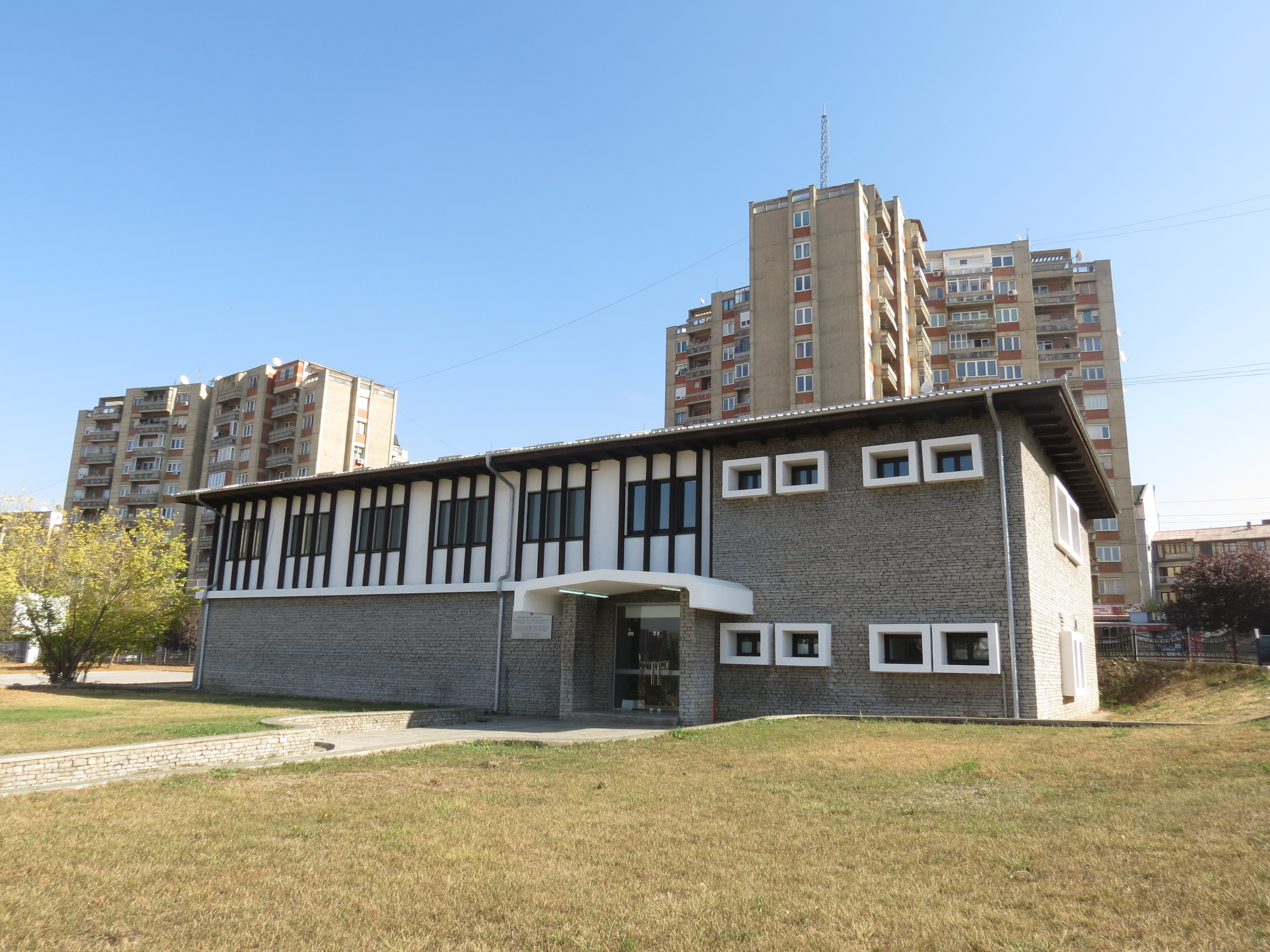 Ministry of Culture, Youth and Sports - The Kosova Art Gallery